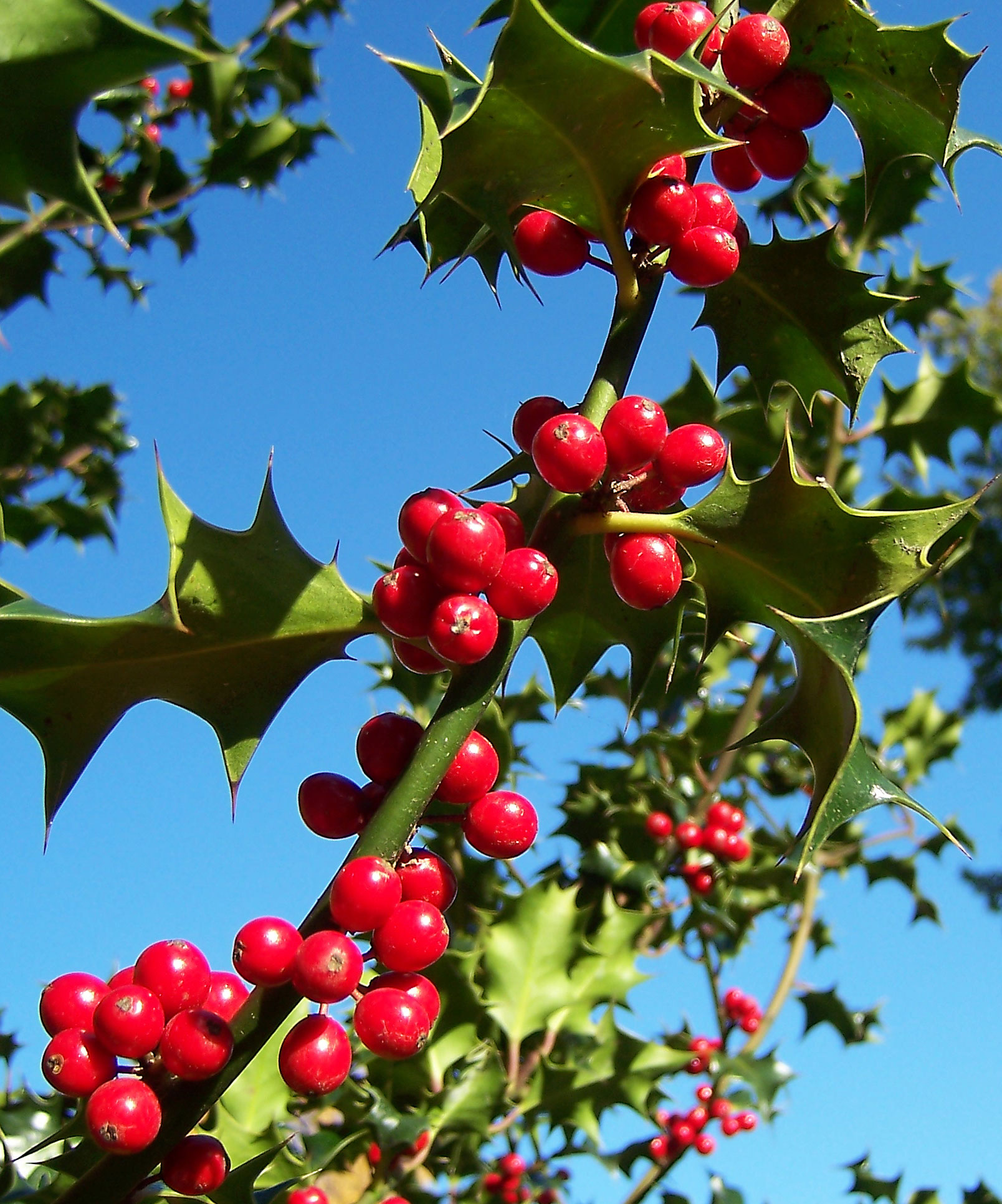 Ilex aquifolium in October in Bremen (Germany)